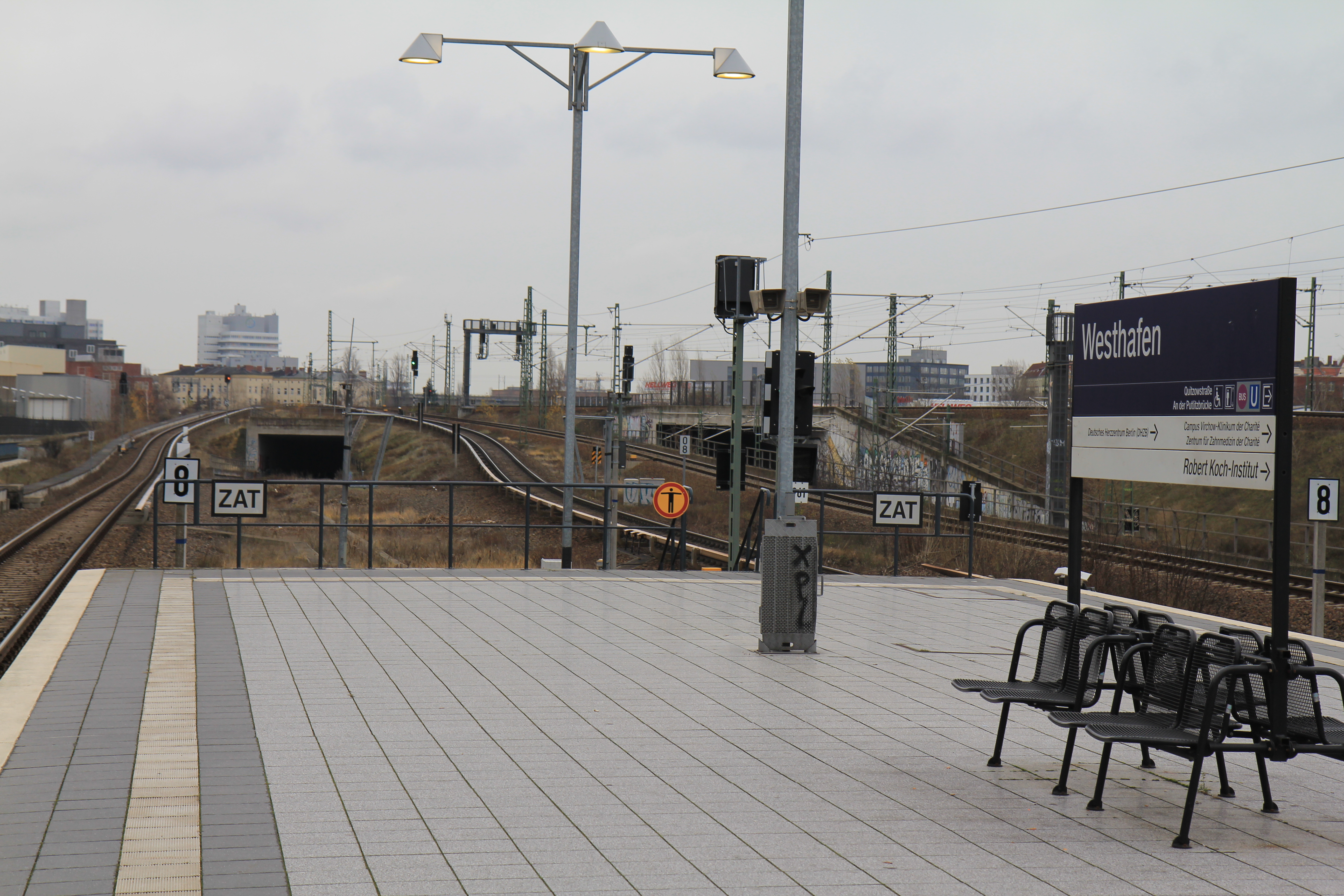 Station "Westhafen" of S-Bahn Berlin. View from the East end of the platform on the two railway underpasses leading to Berlin central station. Left the one still unused (in 2013) for the S-Bahn, to the right the one used since 2006 for the main line railway